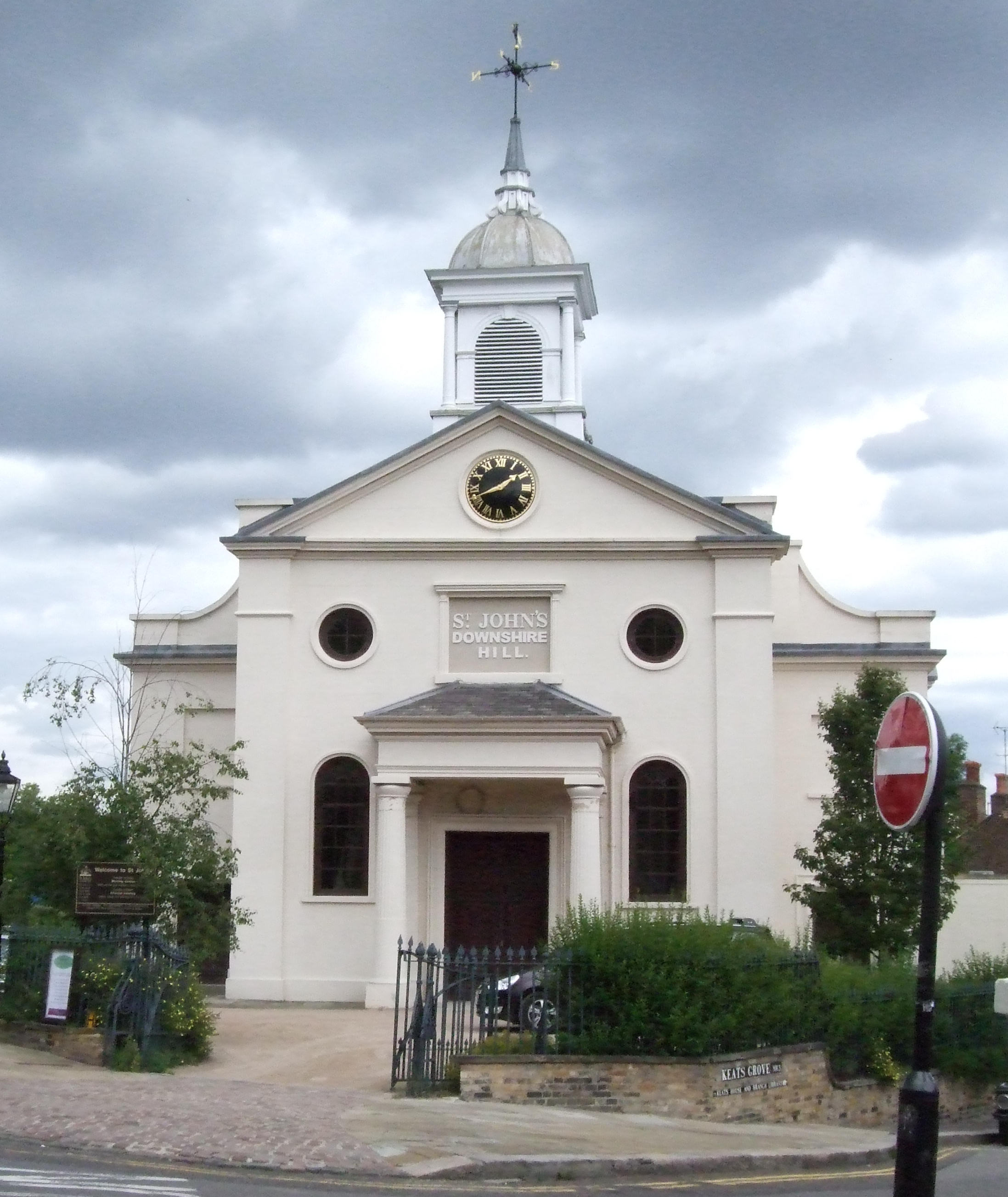 St John's Church, Downshire Hill, Hampstead, London on the corner of Keats Grove